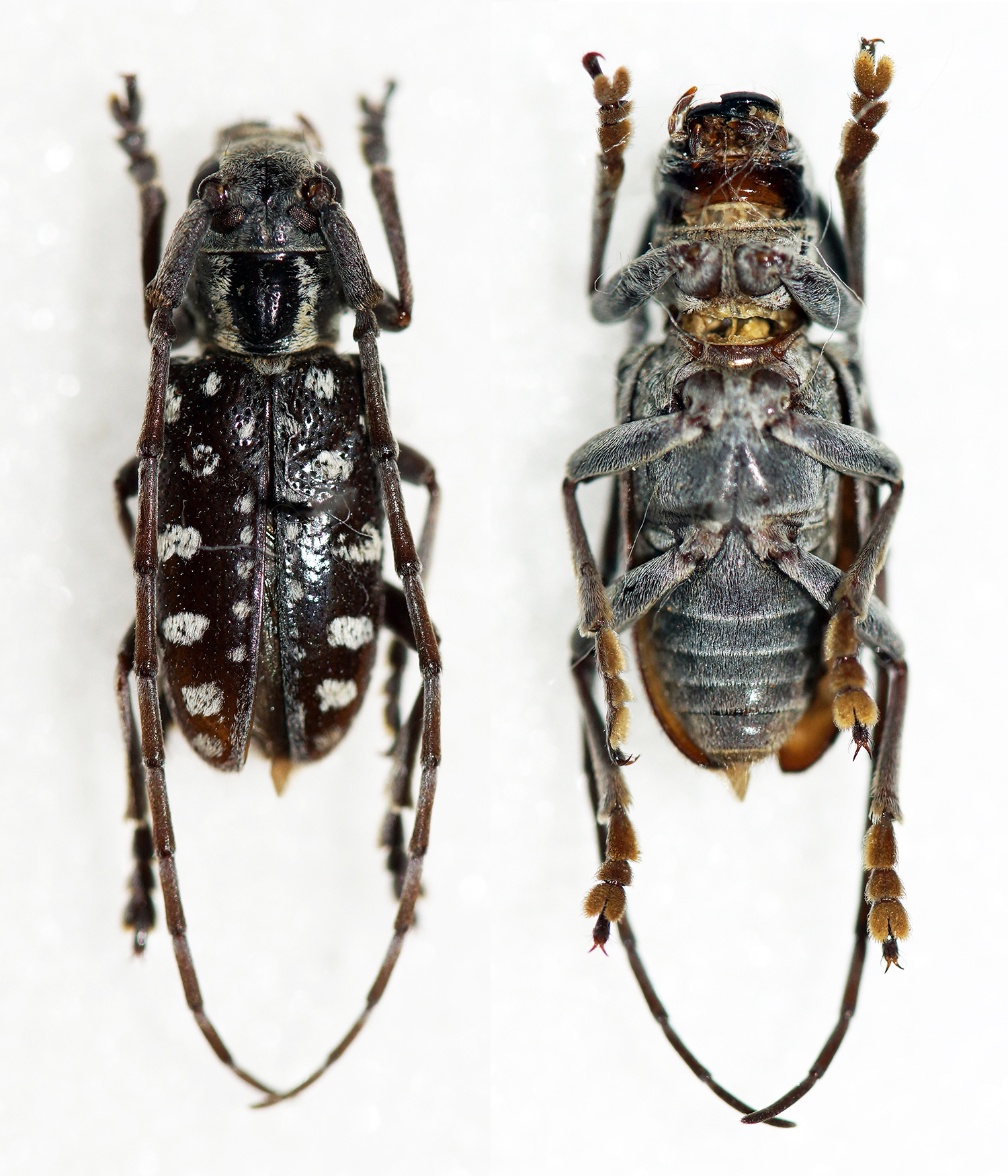 Thomson,1864 Sex: Female Data: 05-1991 - Mai Ai - Chiang Mai - Thailand Size: 9mm